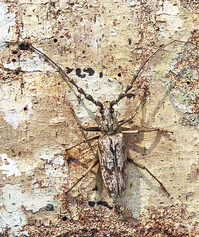 Neocerambyx gigas J. Thomson, 1878. In context at